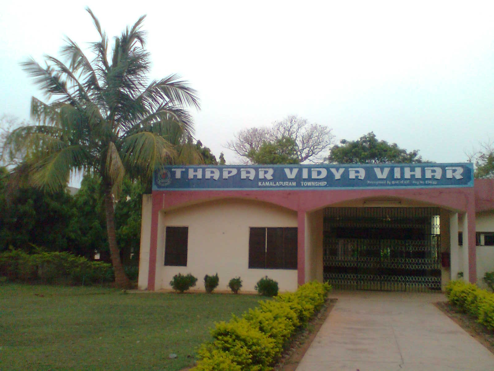 Thapar Vidya Vihar